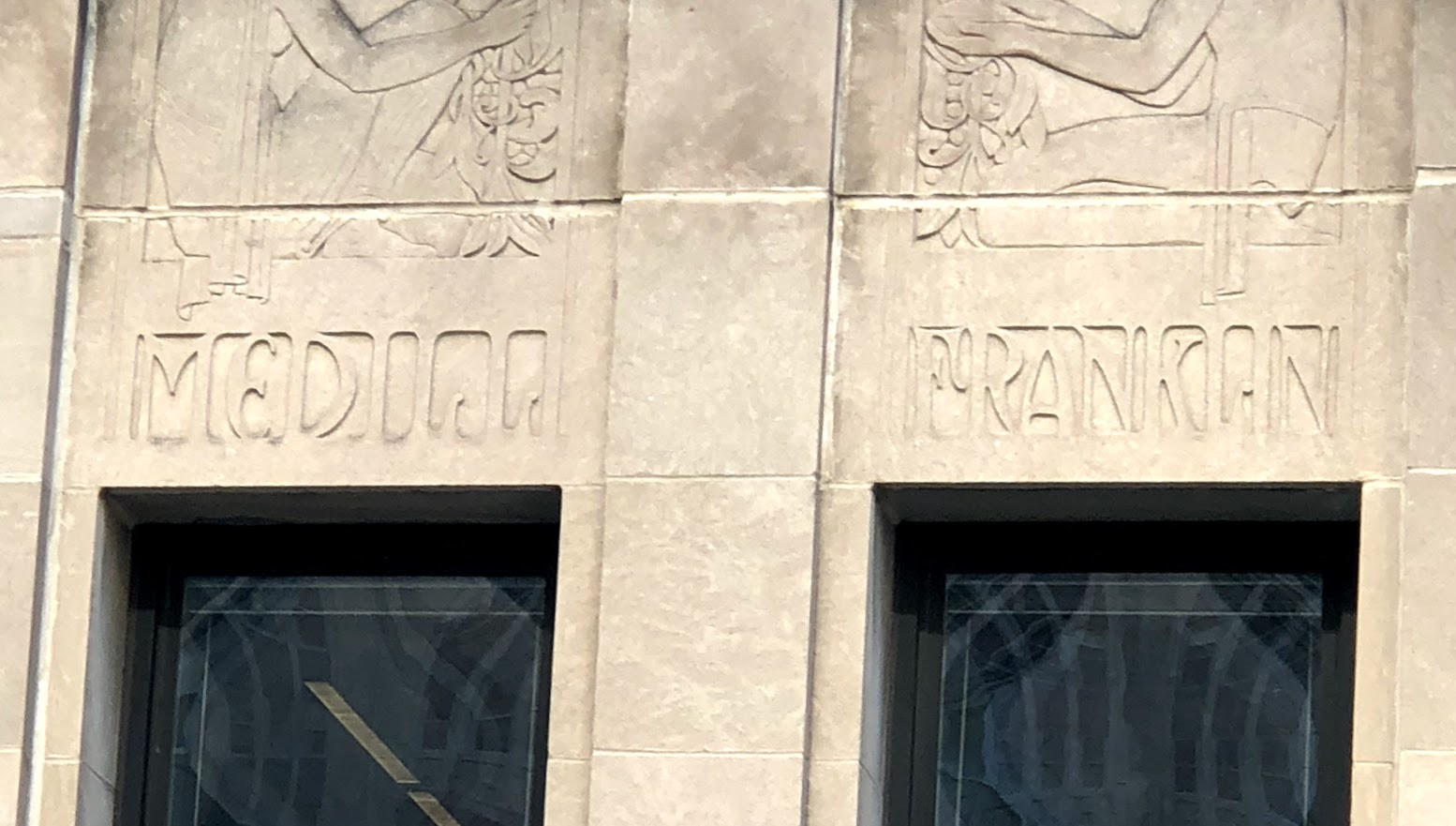 The names of Medill and Franklin on the exterior of 2 N. Riverside Plaza in Chicago